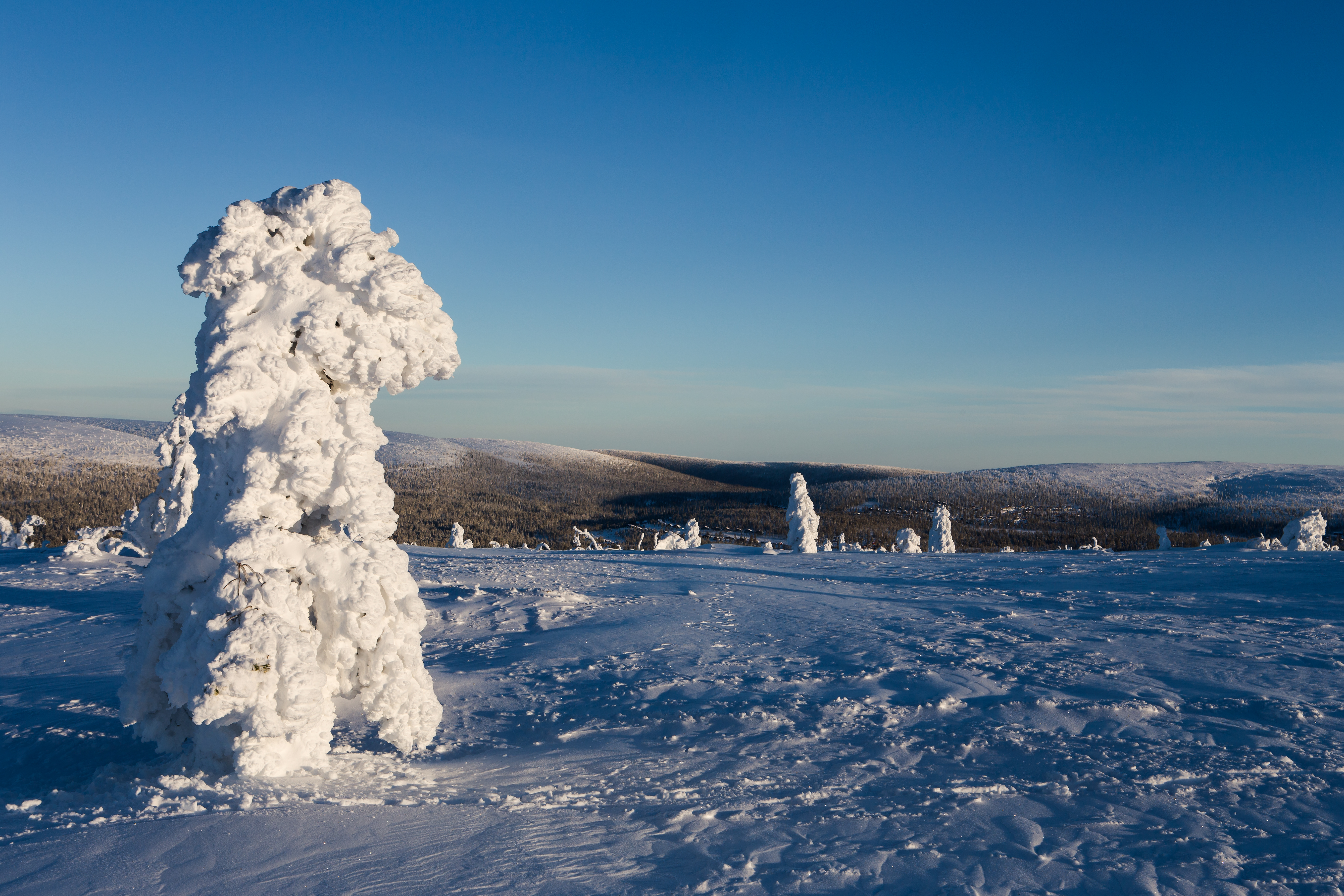 Snowy trees on Hundfjället, Sweden.